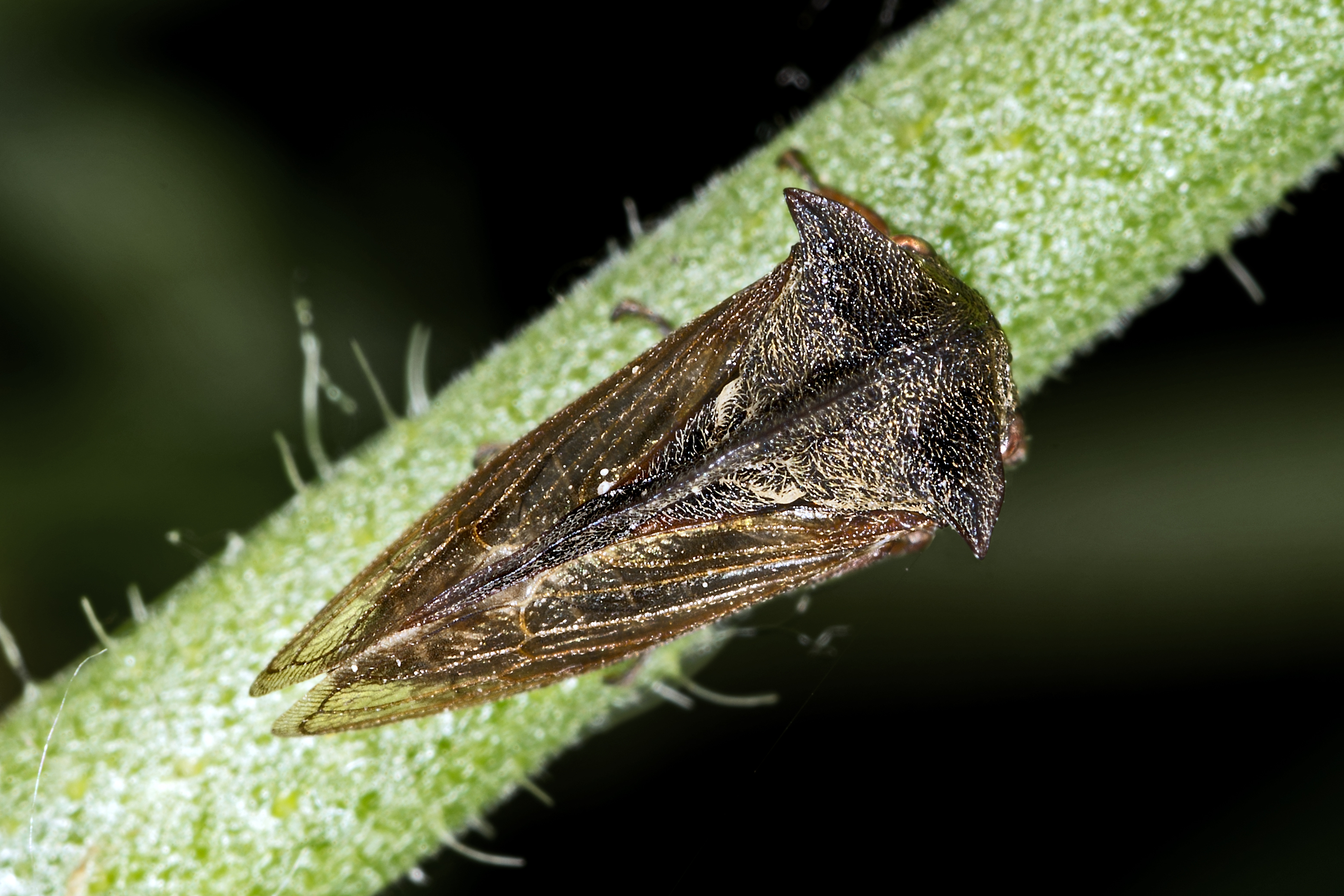 Centrotus cornutus,dorsal side.